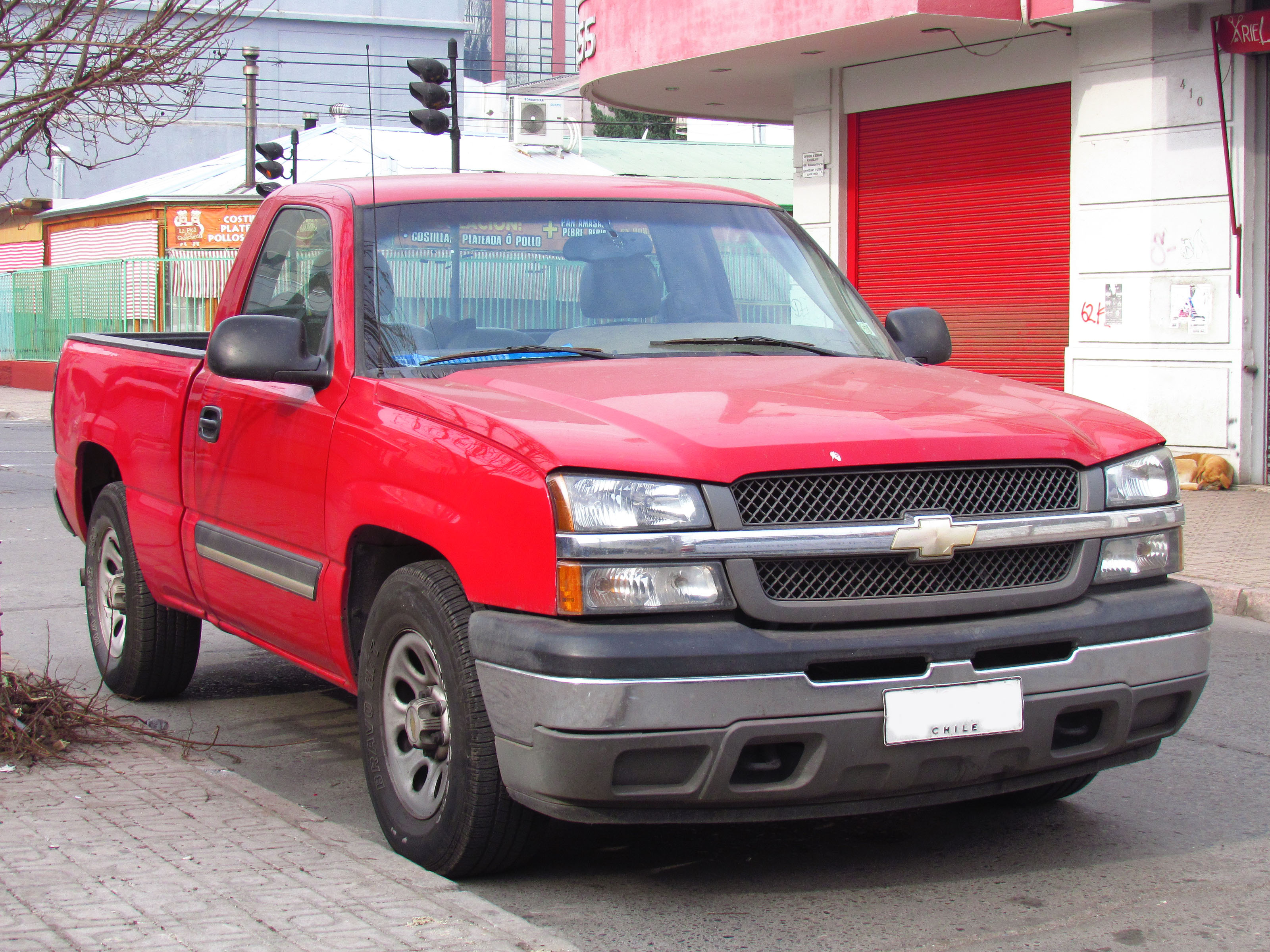 Chevrolet Silverado Style Truck 2005